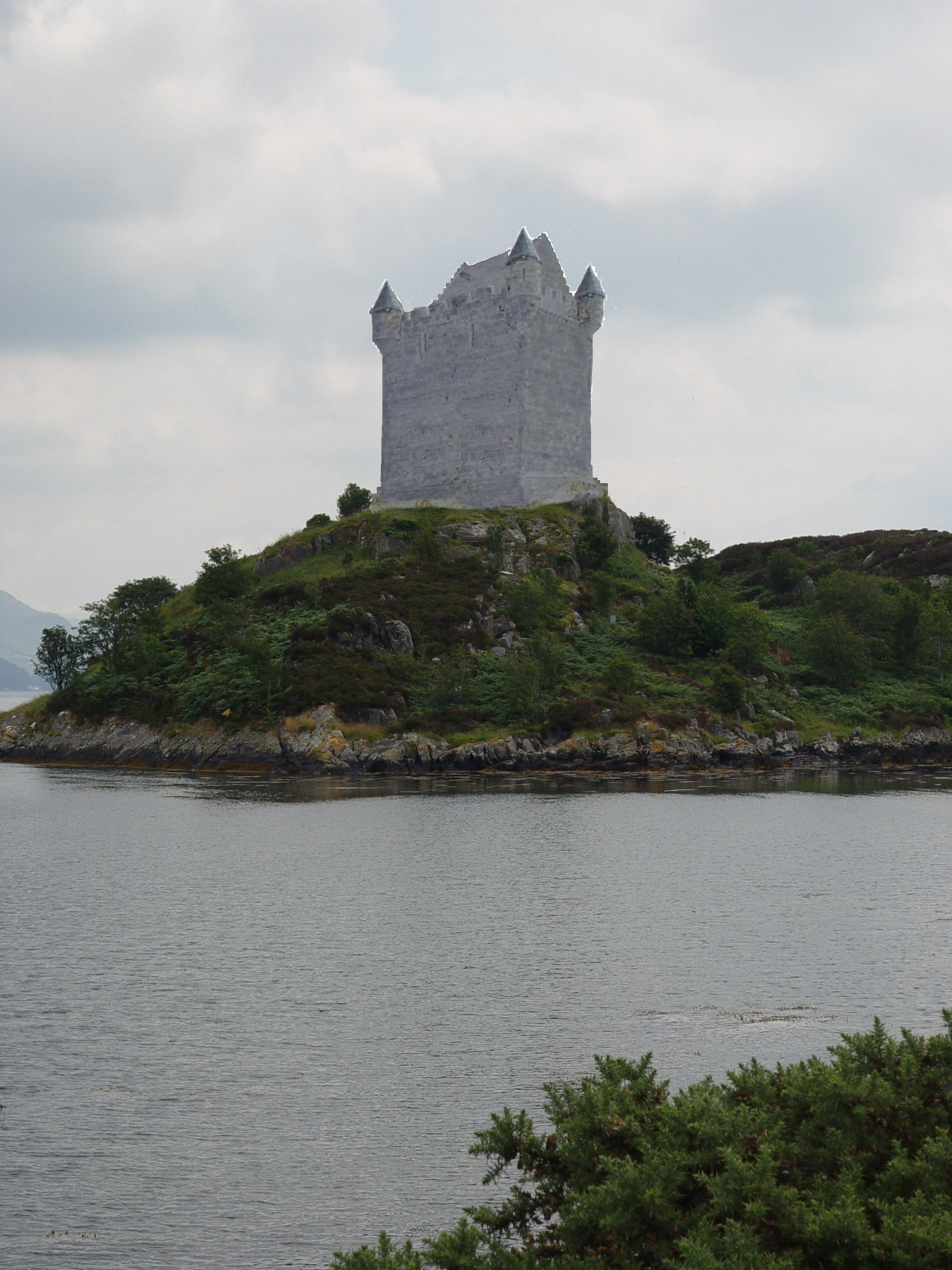 A probable recreation of the exterior of Caisteal Maol (Dunakin) Castle, Isle of Skye, Scotland in its early 16th century form. Based on various descriptions, this graphic was created by the author. The top level of the structure is speculation but based on the available evidence. The main reference sources are the the Skye & Lochalsh District Council's Museums Service.